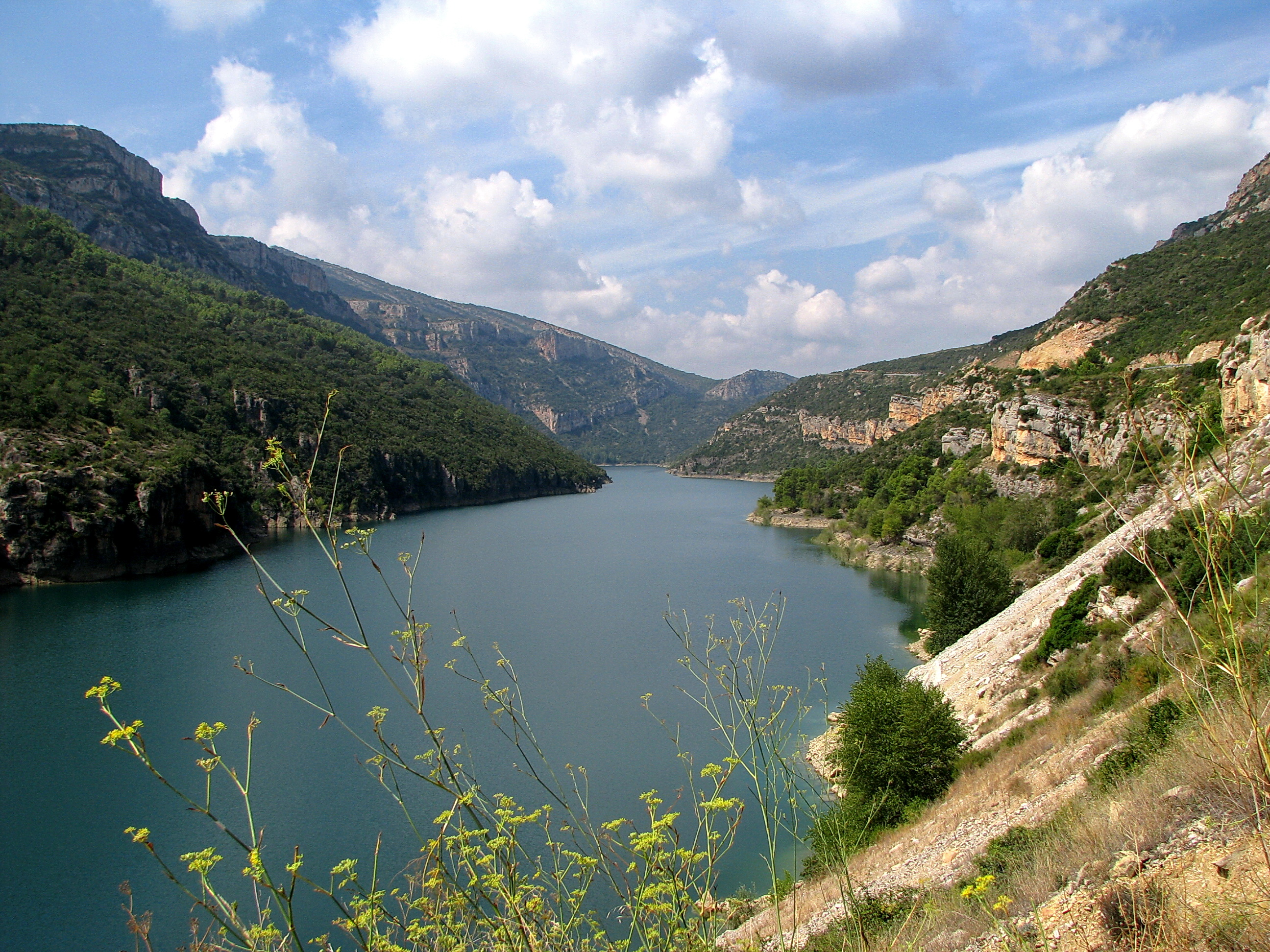 Camarasa Reservoir